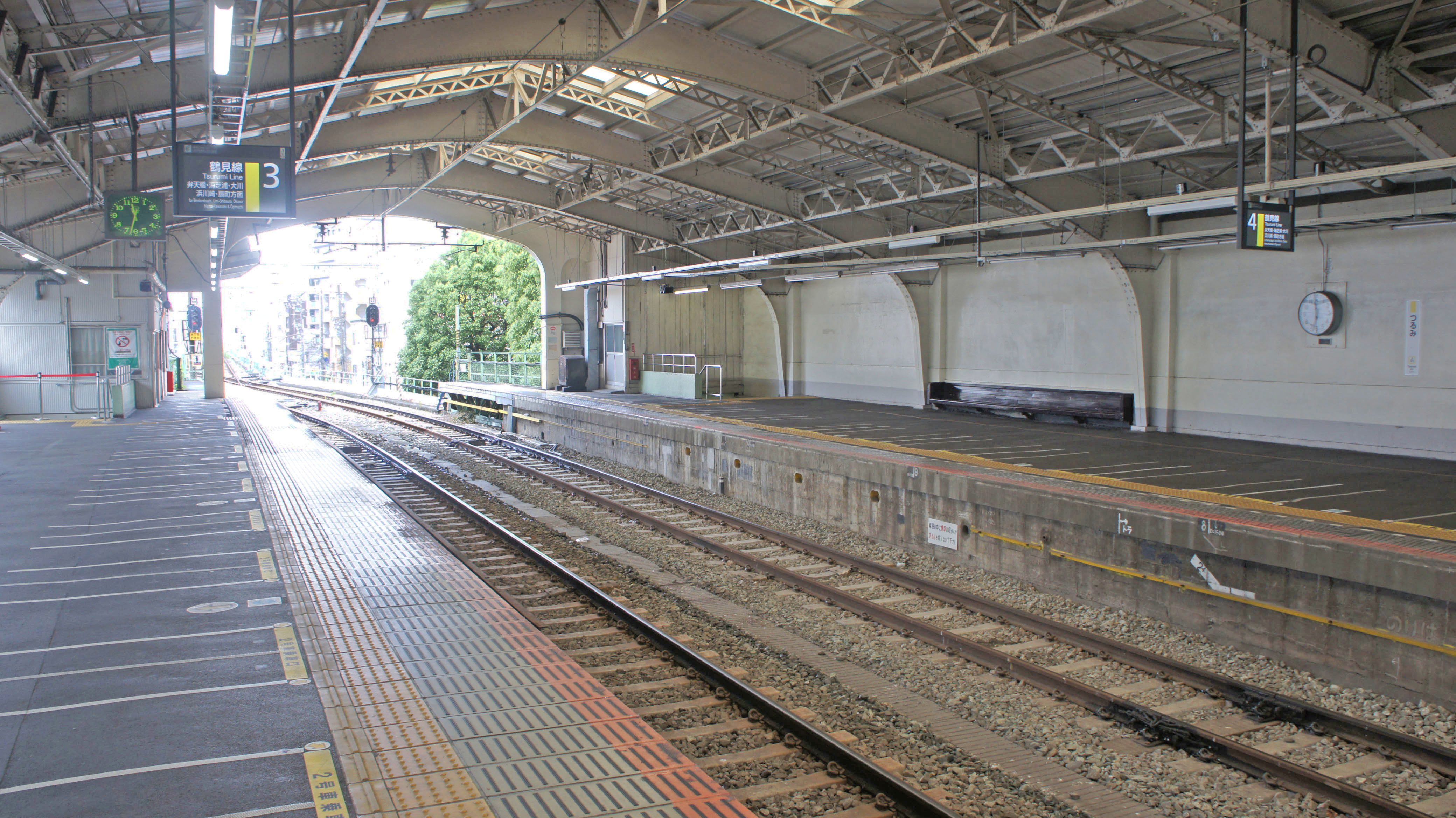 Platform 3・4 (Tsurumi Line) of JR Tsurumi Station